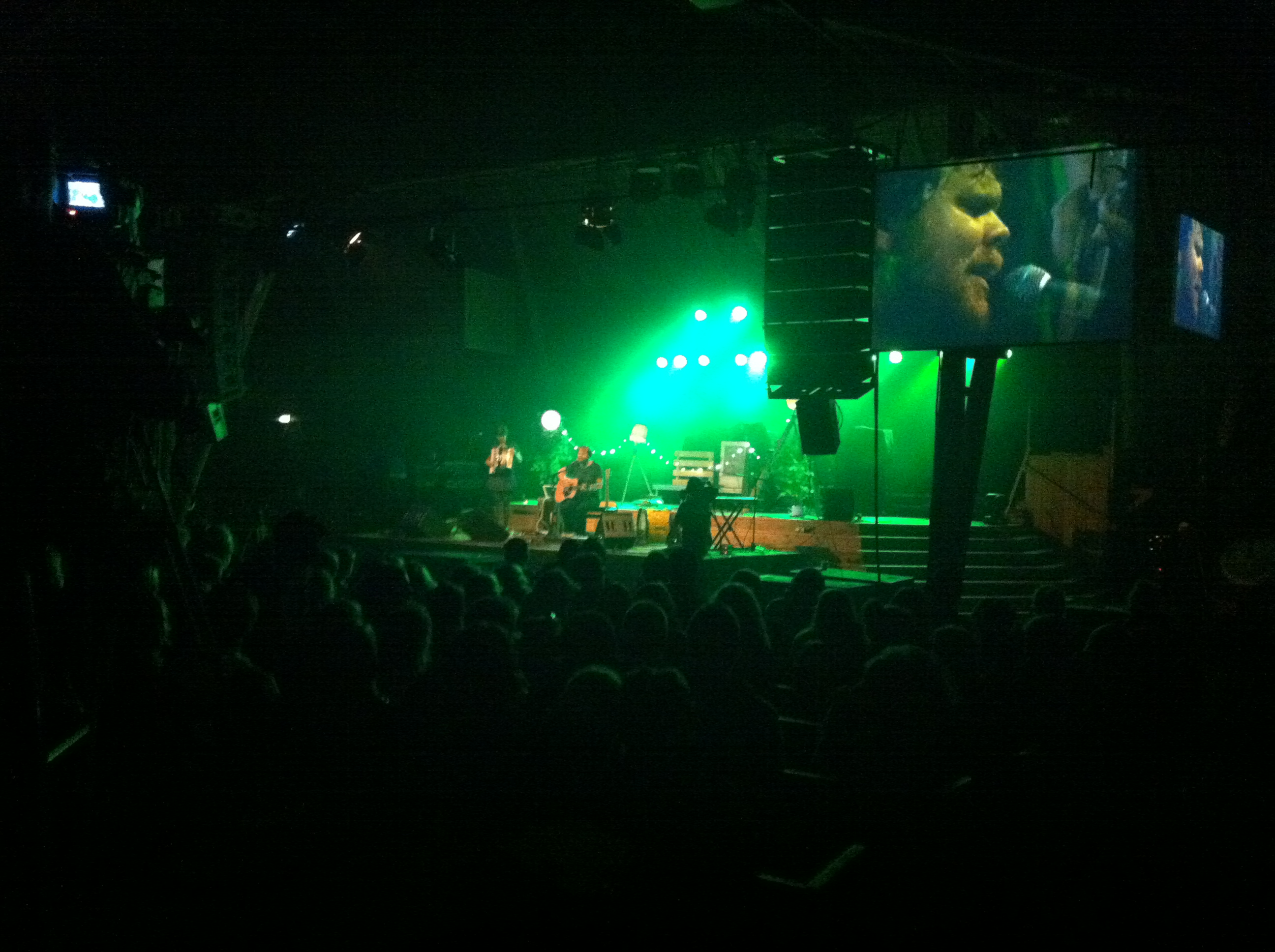 Loney Dear at the Frizon Festival.